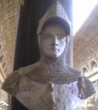 Hugues Quieret, battles gallery, Versailles castle, France